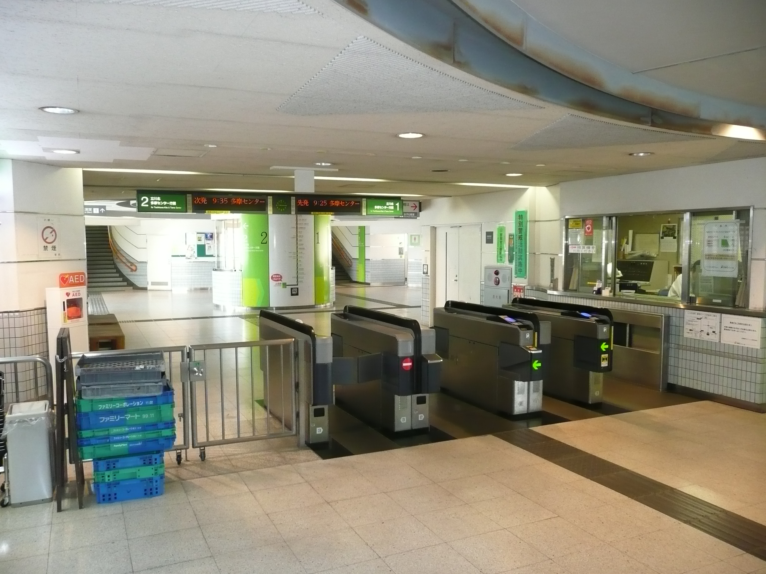 Ticket gate to Kamikitadai Station